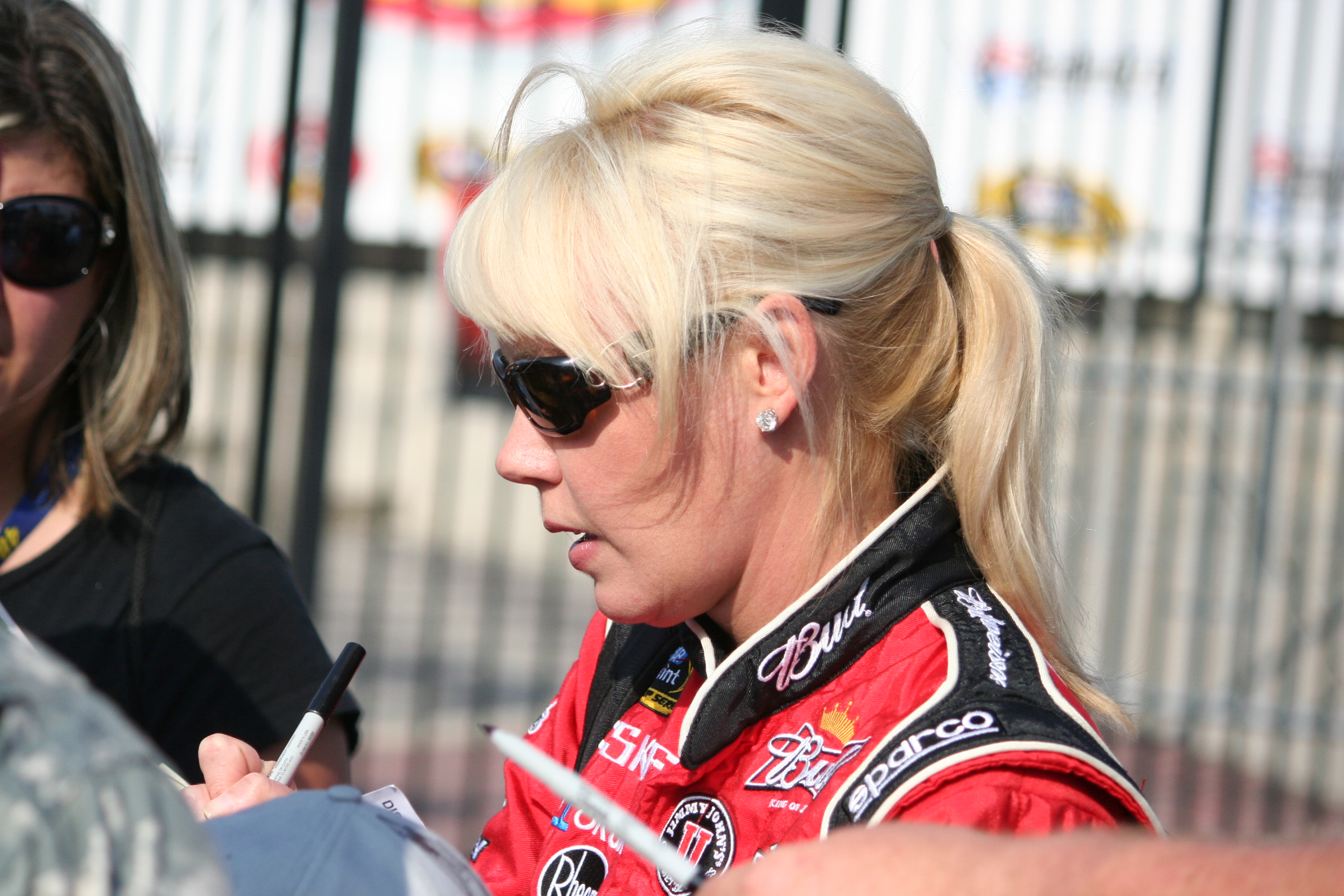 DeLana Harvick, wife of driver Kevin Harvick, at Charlotte Motor Speedway, May 29 2011.